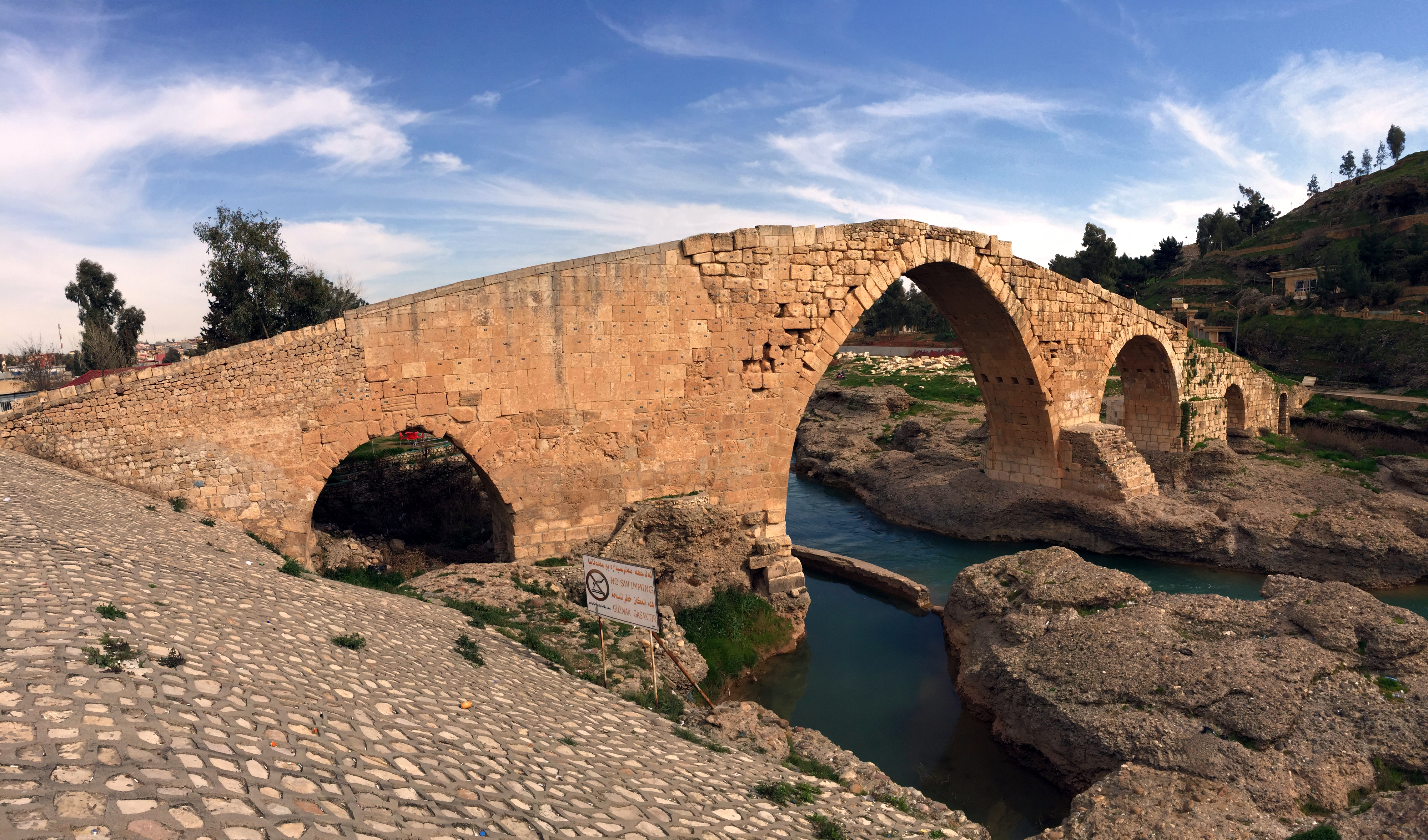 Delal Bridge in Zakho, Iraqi Kurdistan